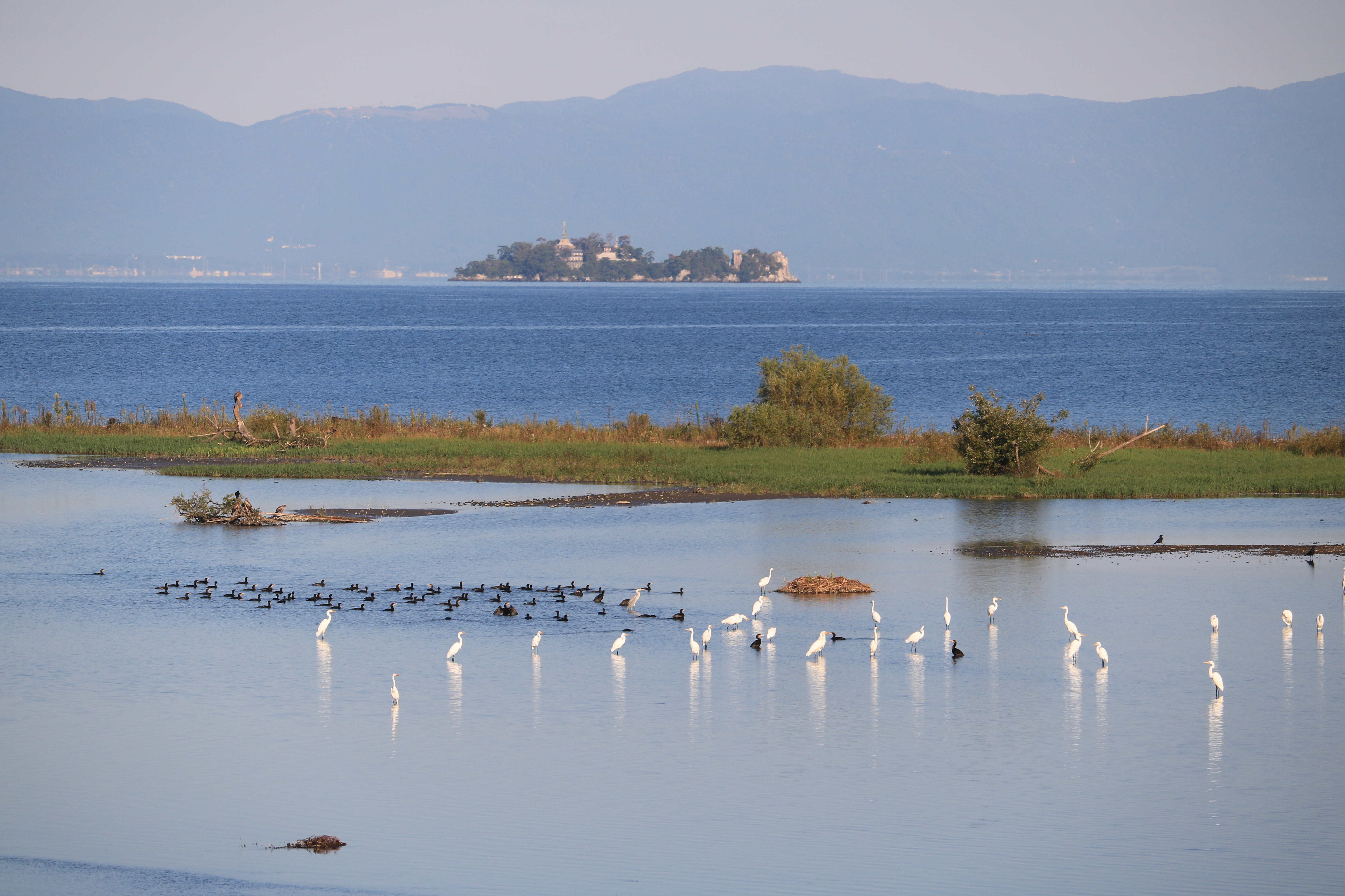 Take Island seen from river mouth of Inukami River in Hikone, Shiga prefecture, Japan.